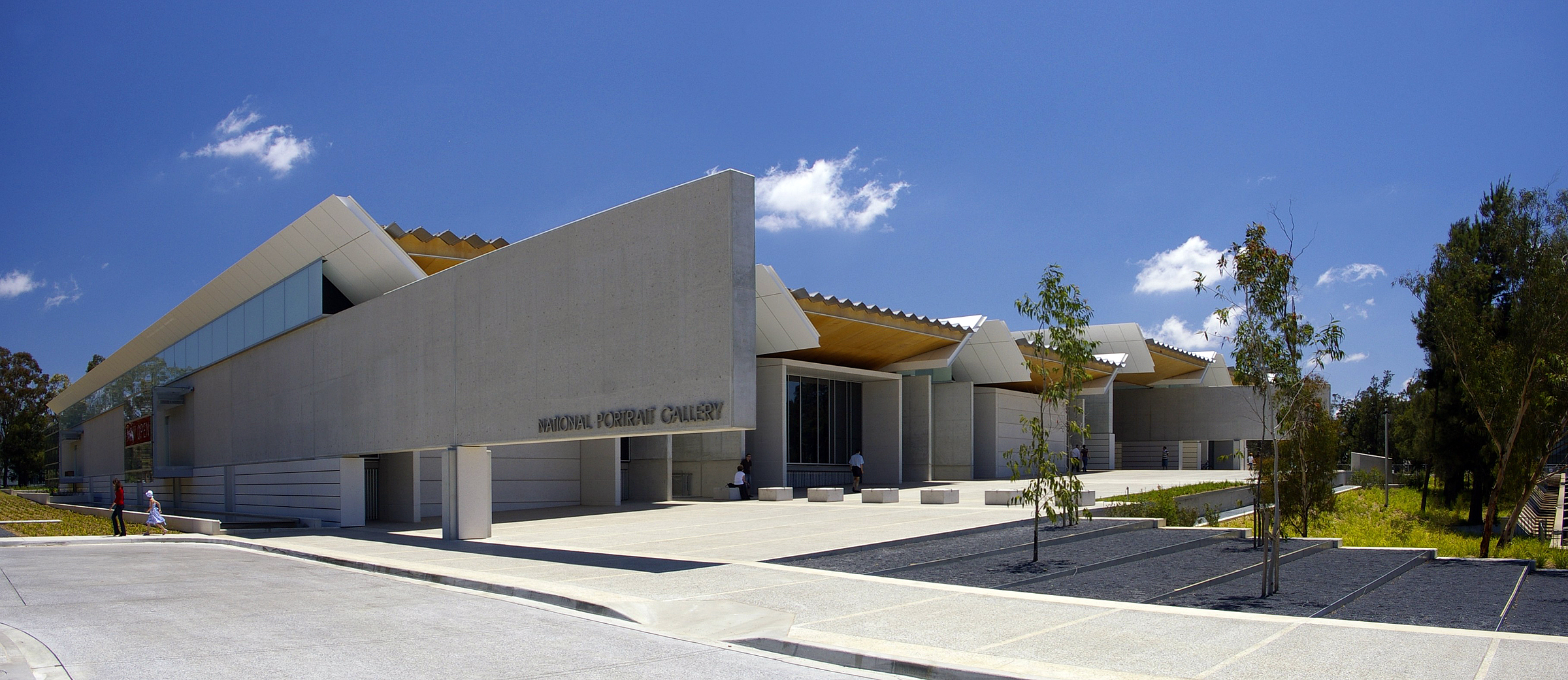 National Portrait Gallery located on King Edward Terrace in Canberra, Australian Capital Territory.